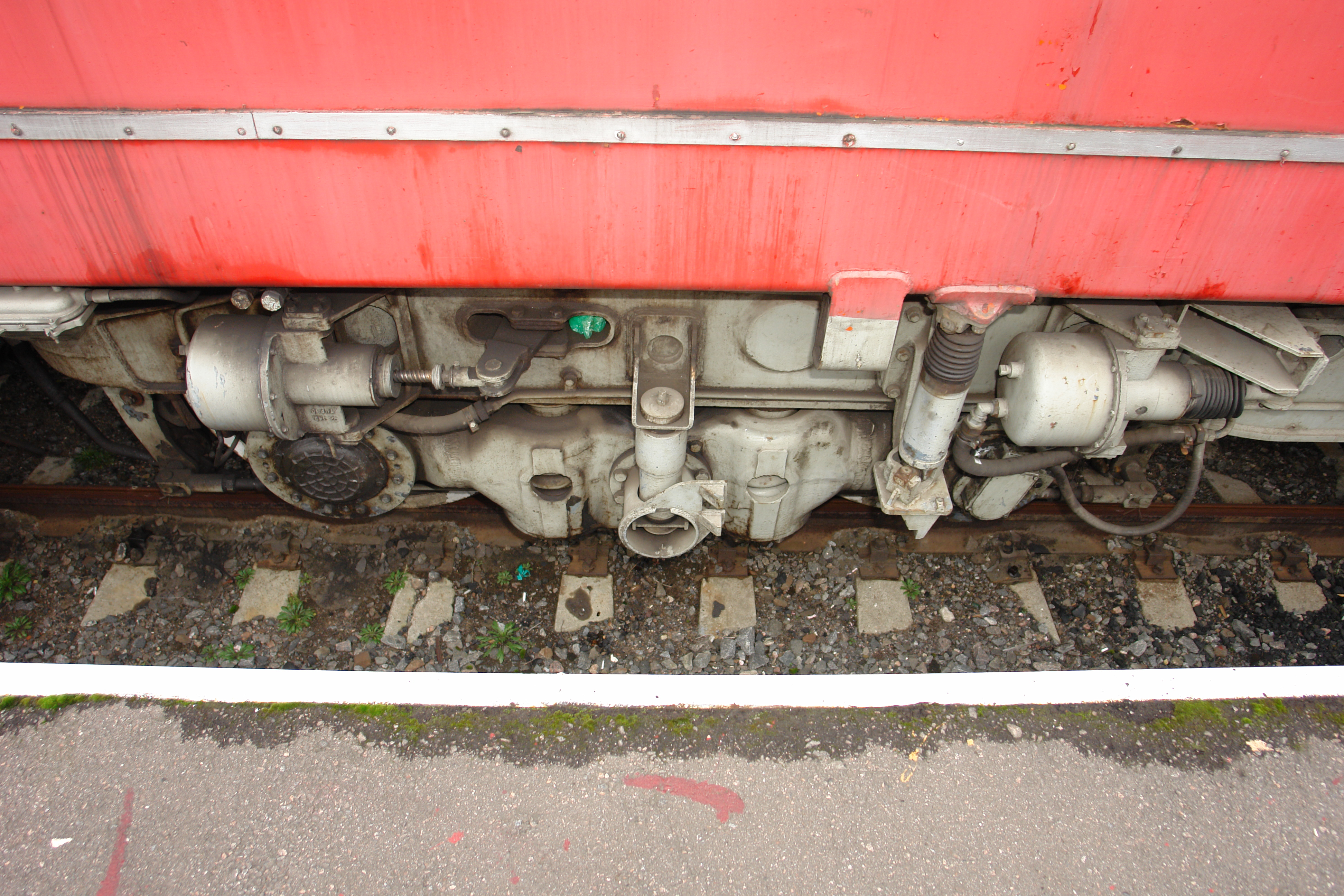 Locomotive TEP80 002 (no additional information avaible)